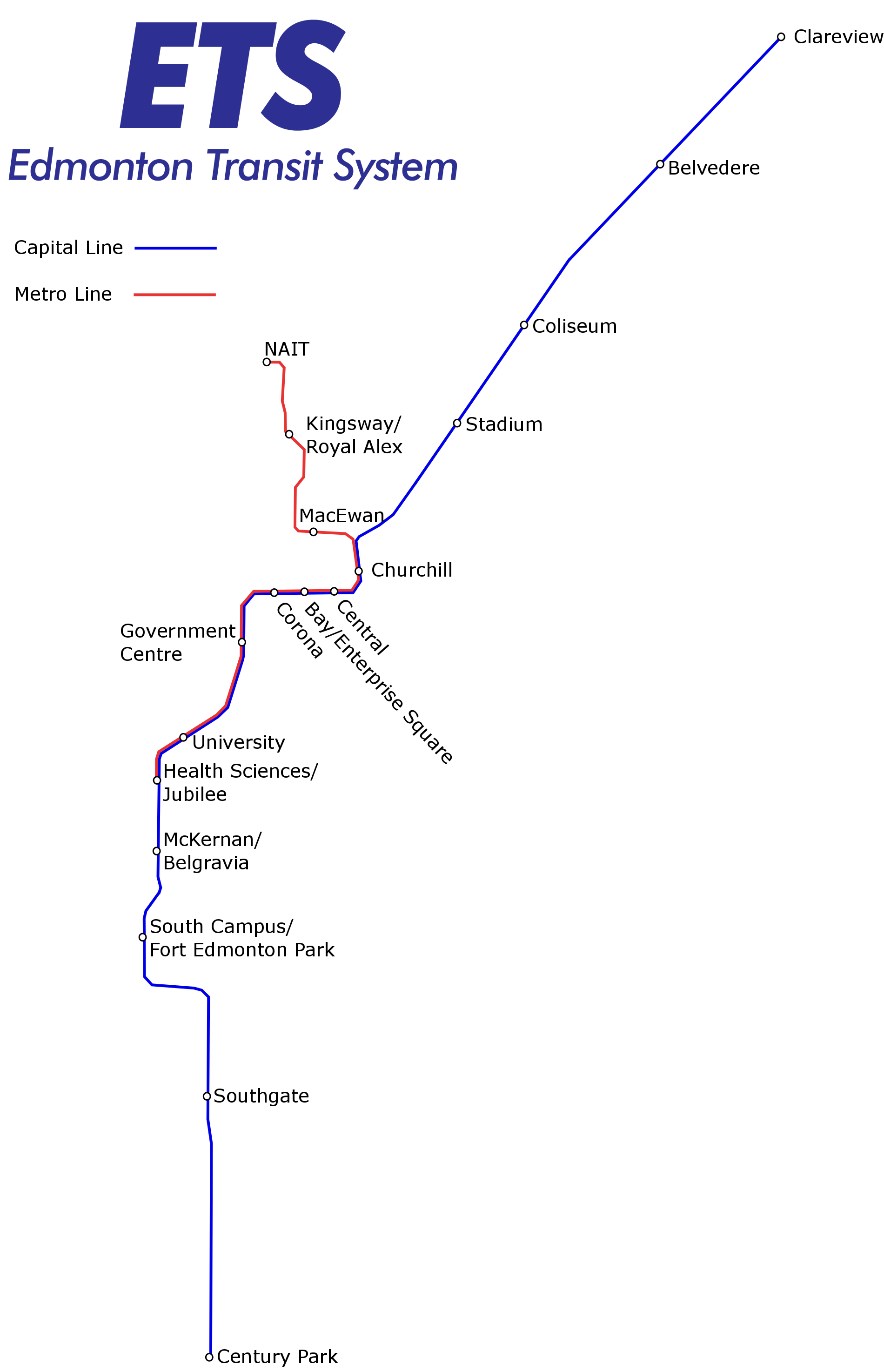 Map of the current Edmonton LRT